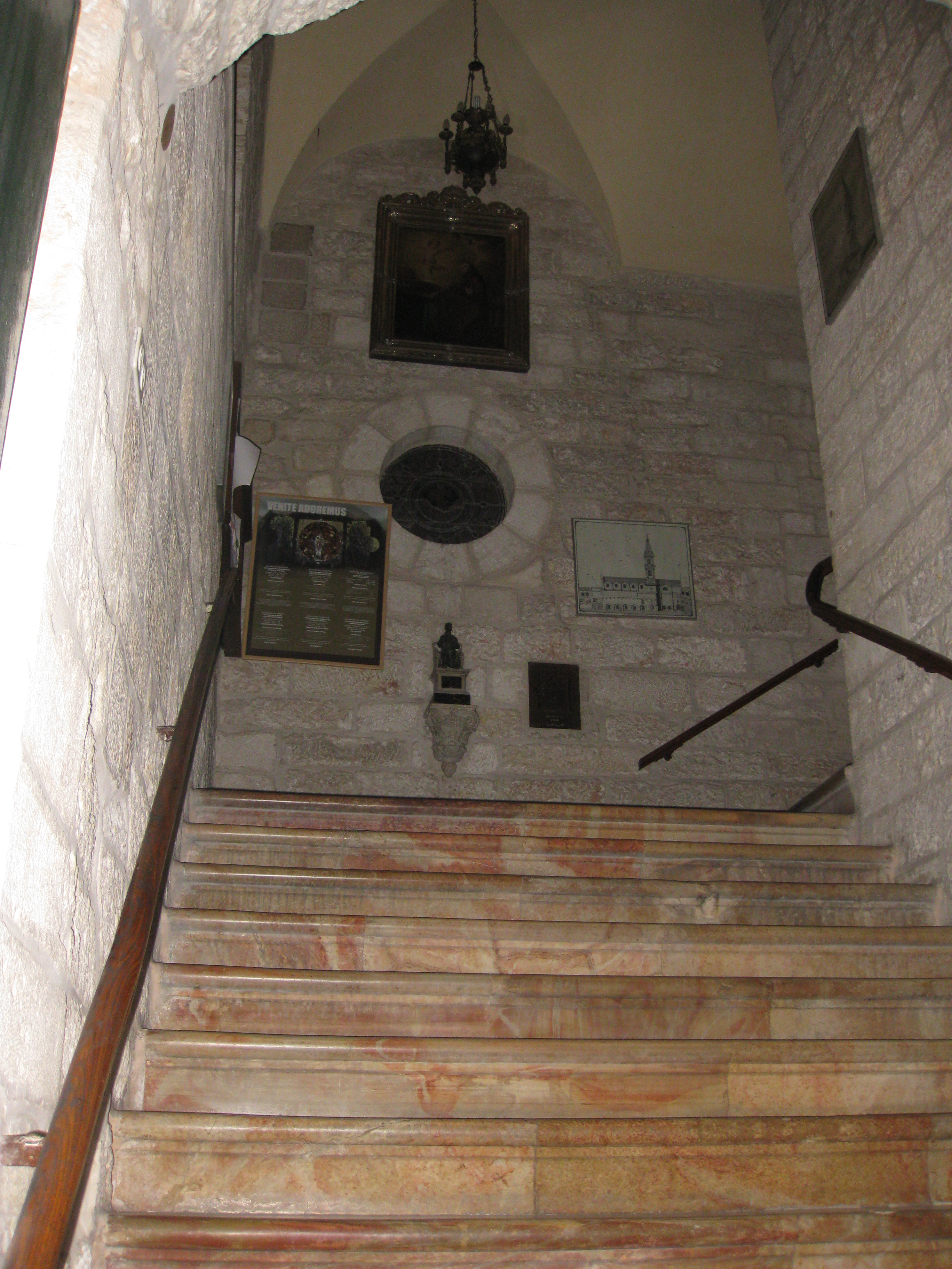 The Christian Quarter - San Salvatore compound - the stairway to St. Saviour Church.